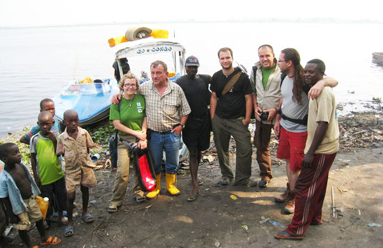 The team of Torday-Congo Expedition